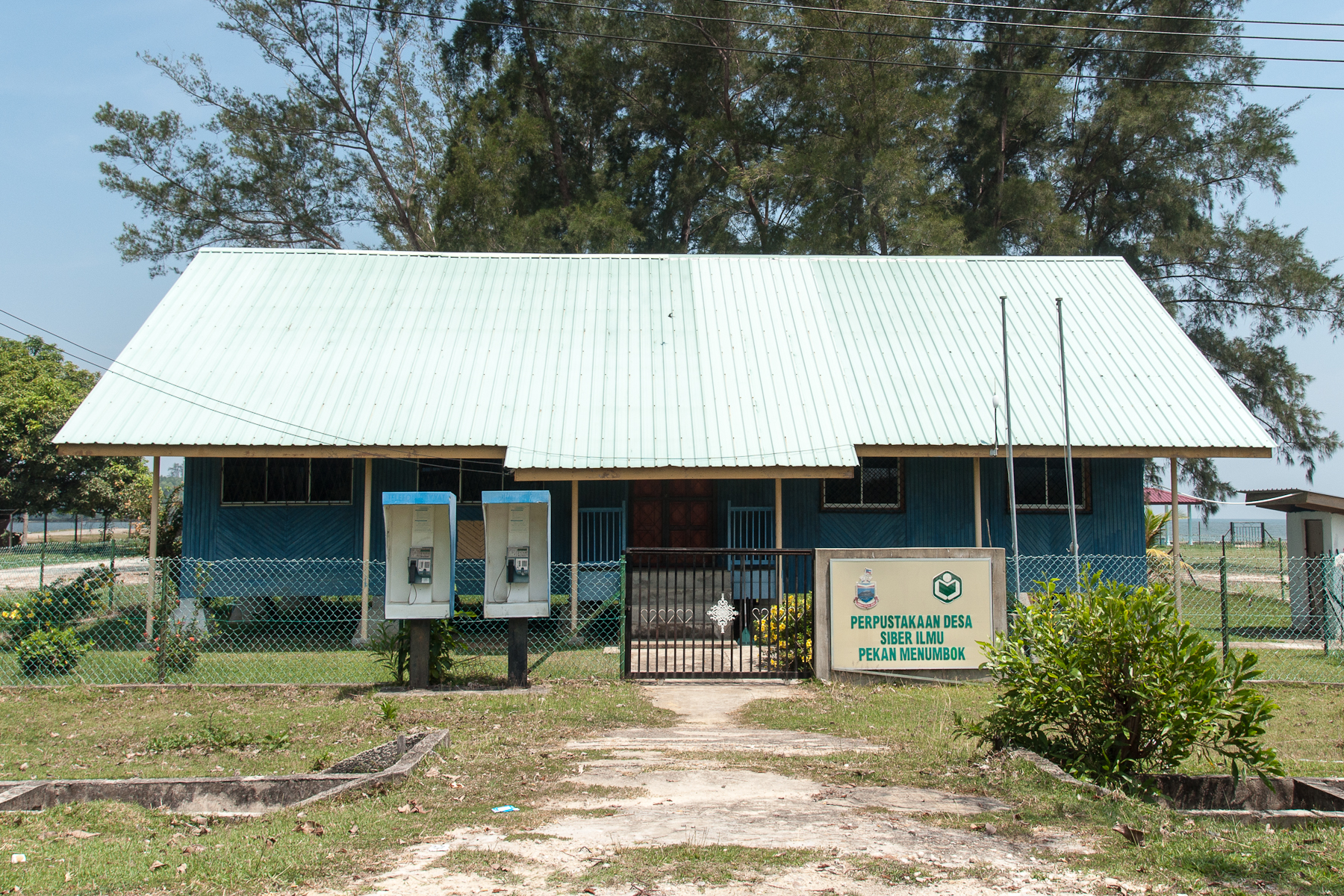 Menumbok, Sabah: Rural Cyber Library (Perpustakaan Desa Siber Ilmu Pekan Menumbok)